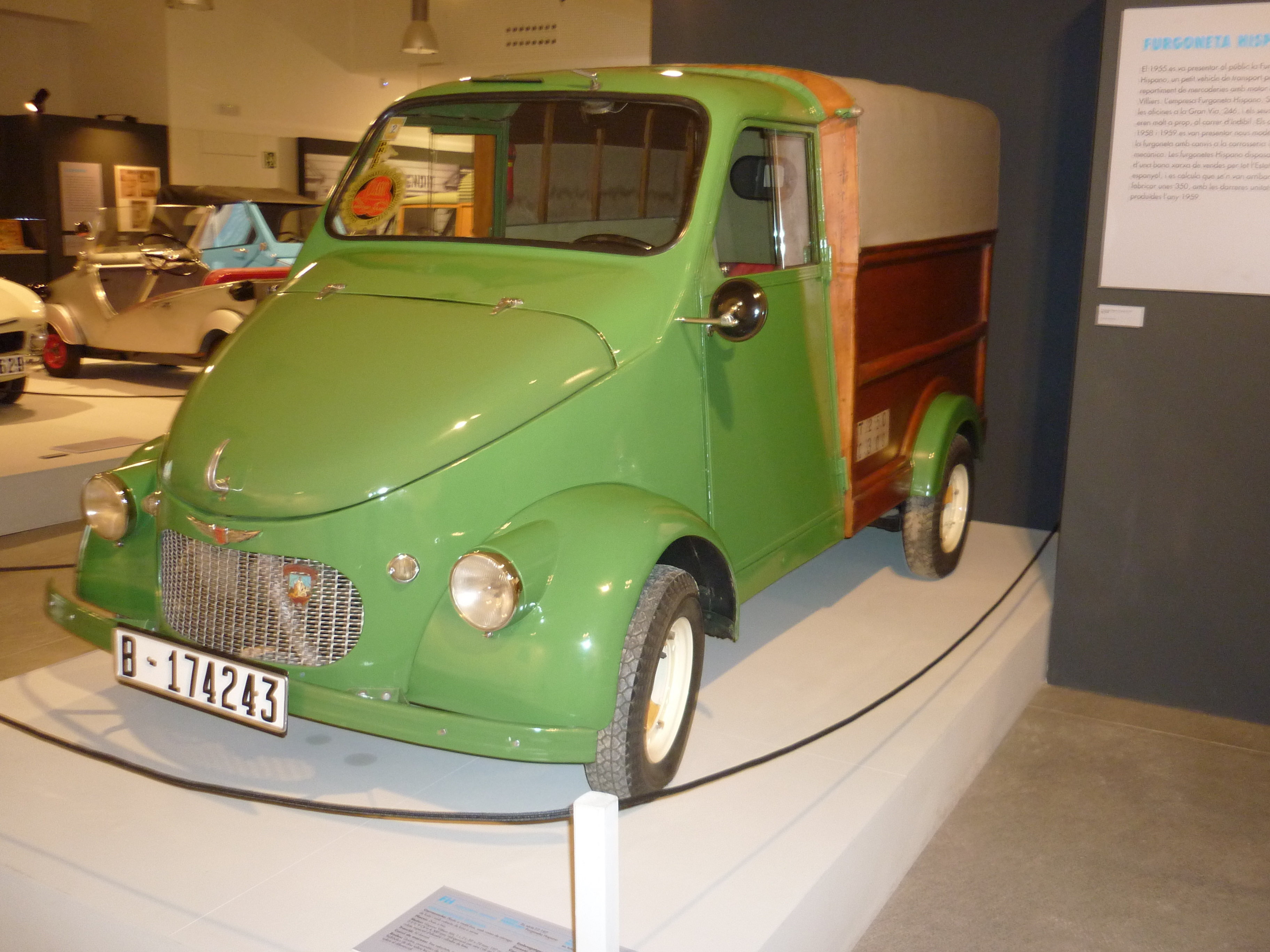 FH ("Furgoneta Hispano") 2a Sèrie F2 197 (1958), made in Barcelona (Catalonia)